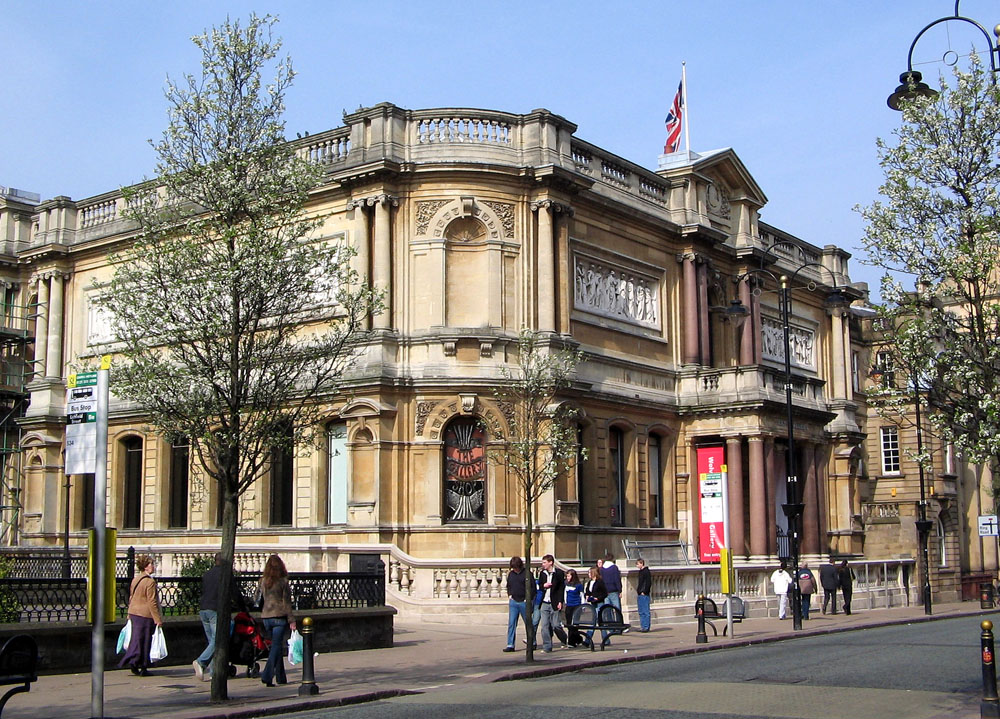 Wolverhampton Art Gallery seen from the side.